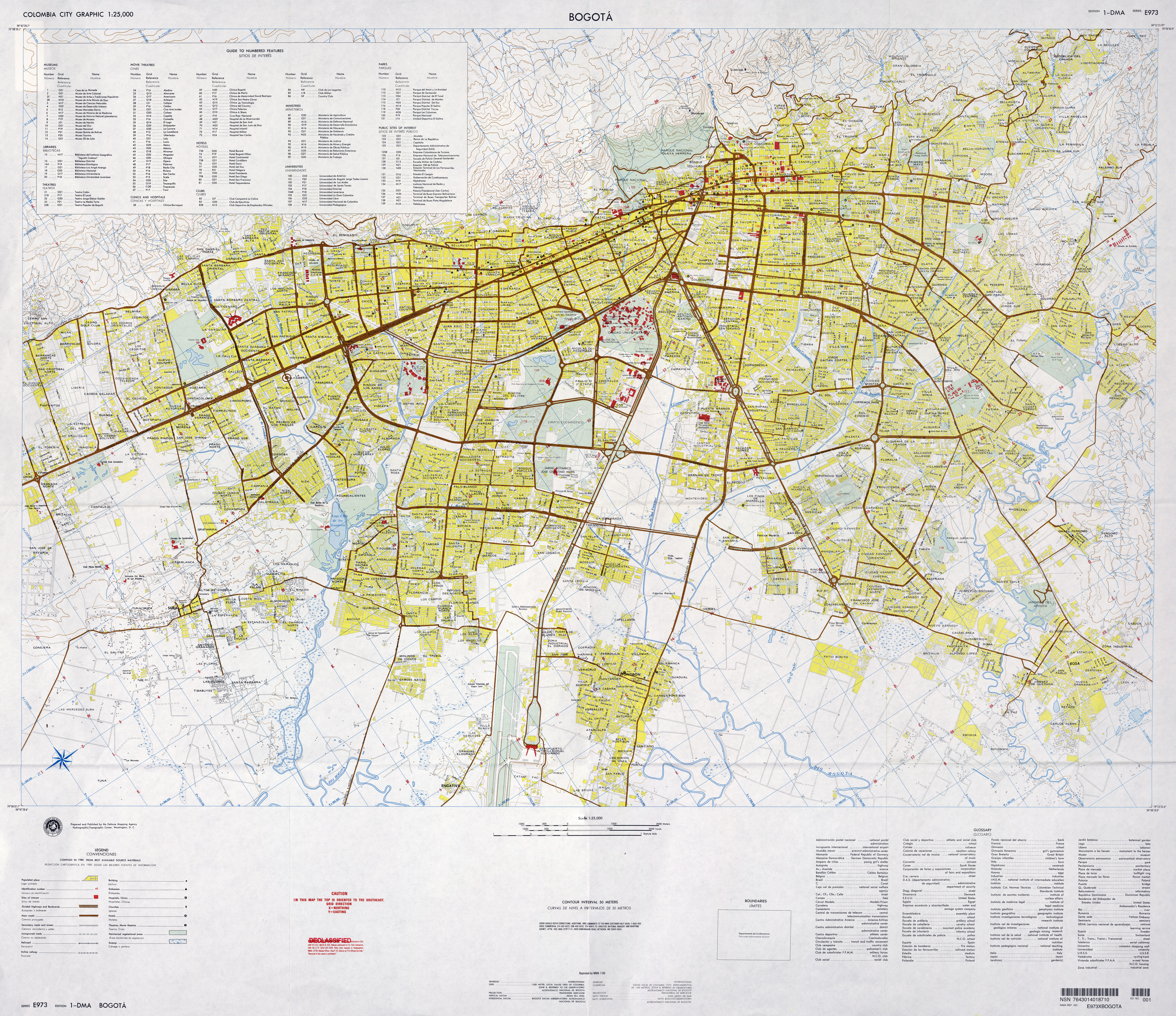 Map of Bogotá, Colombia of 1980.